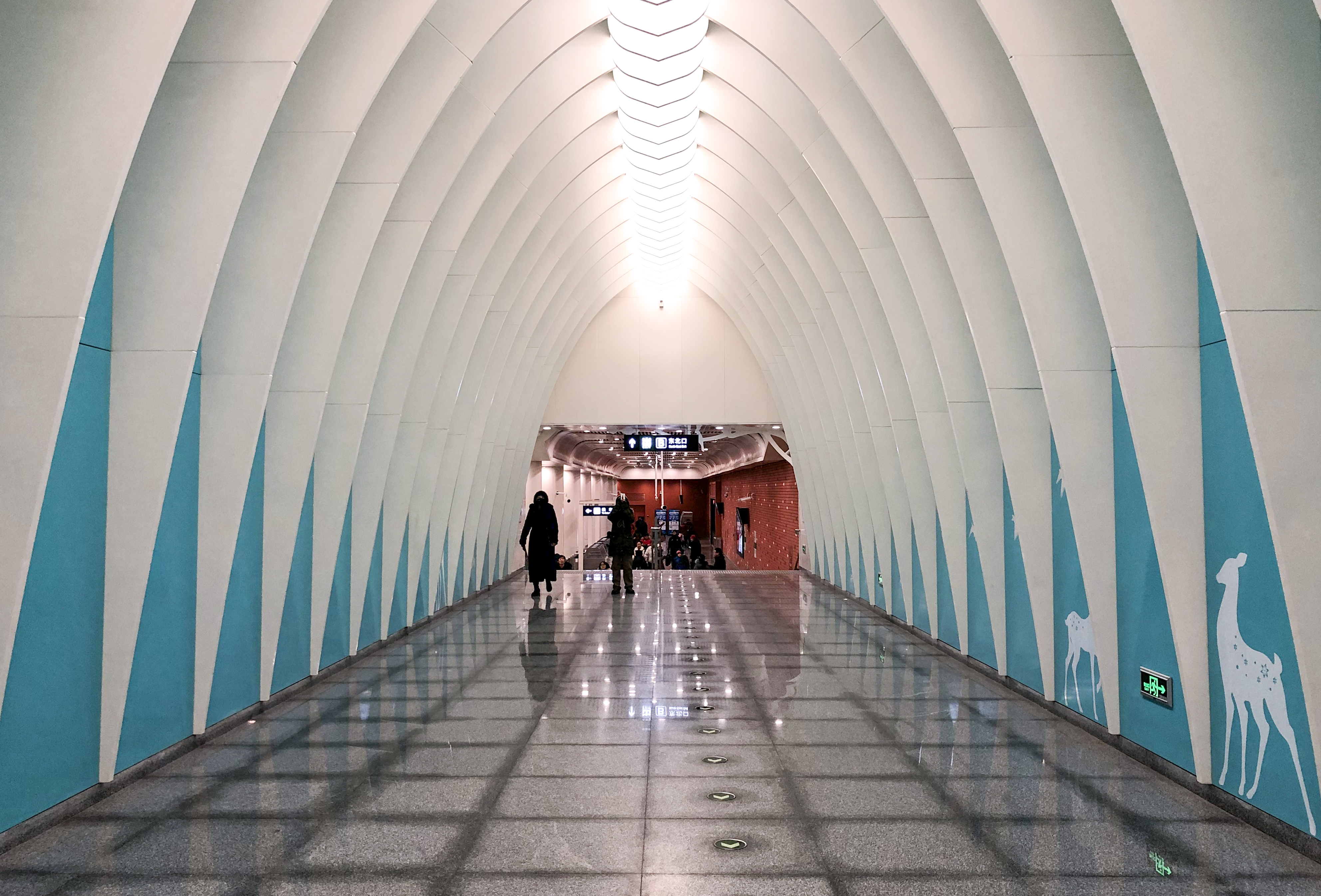 Even this corridor is decorated with deer - so who will take wedding photos here?